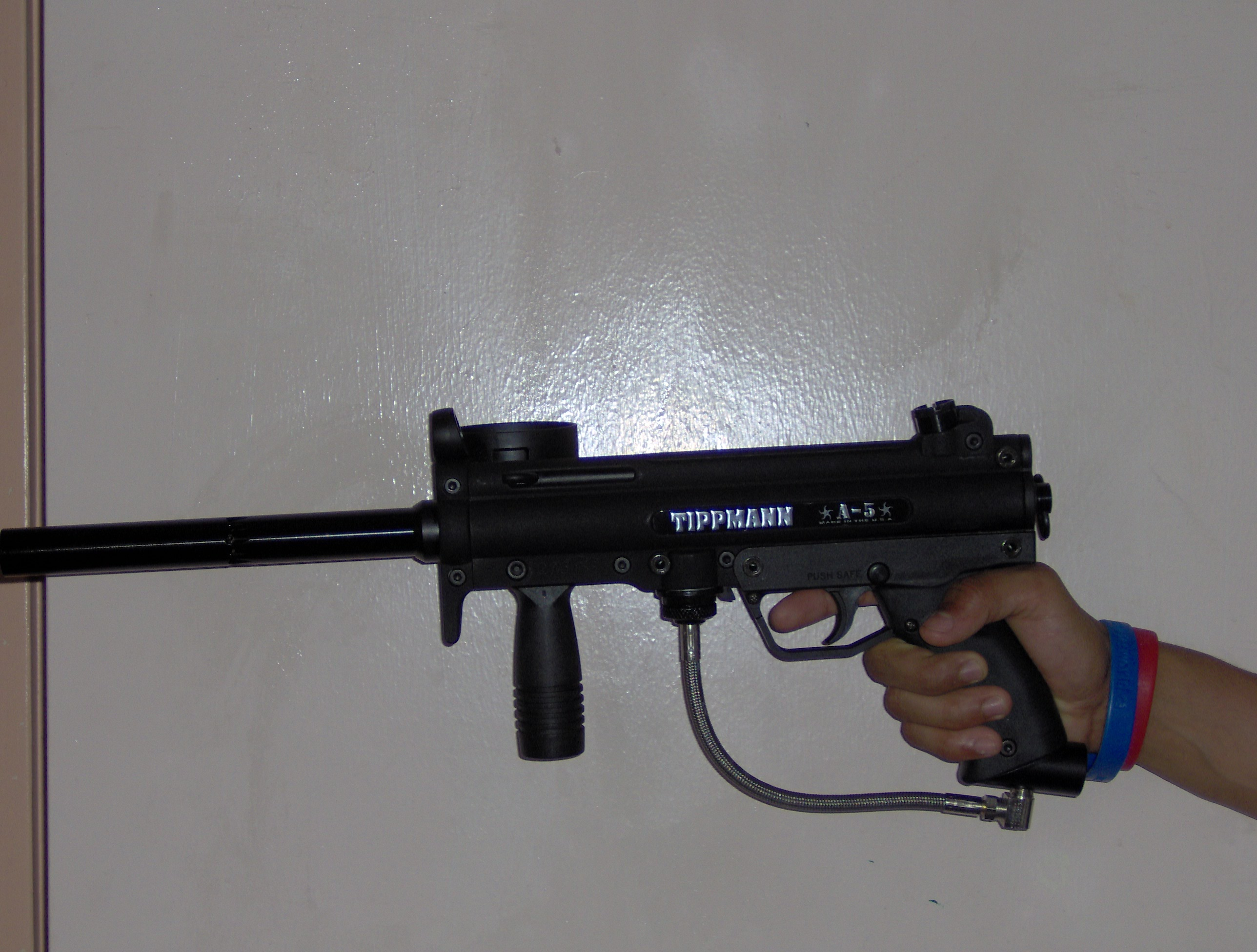 The A-5 semi-automatic pneumatic gun made by Tippmann for playing paintball.